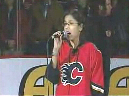 The young Cree singer Akina Shirt becomes the first person ever to perform "O Canada" in an Aboriginal language at a national event.